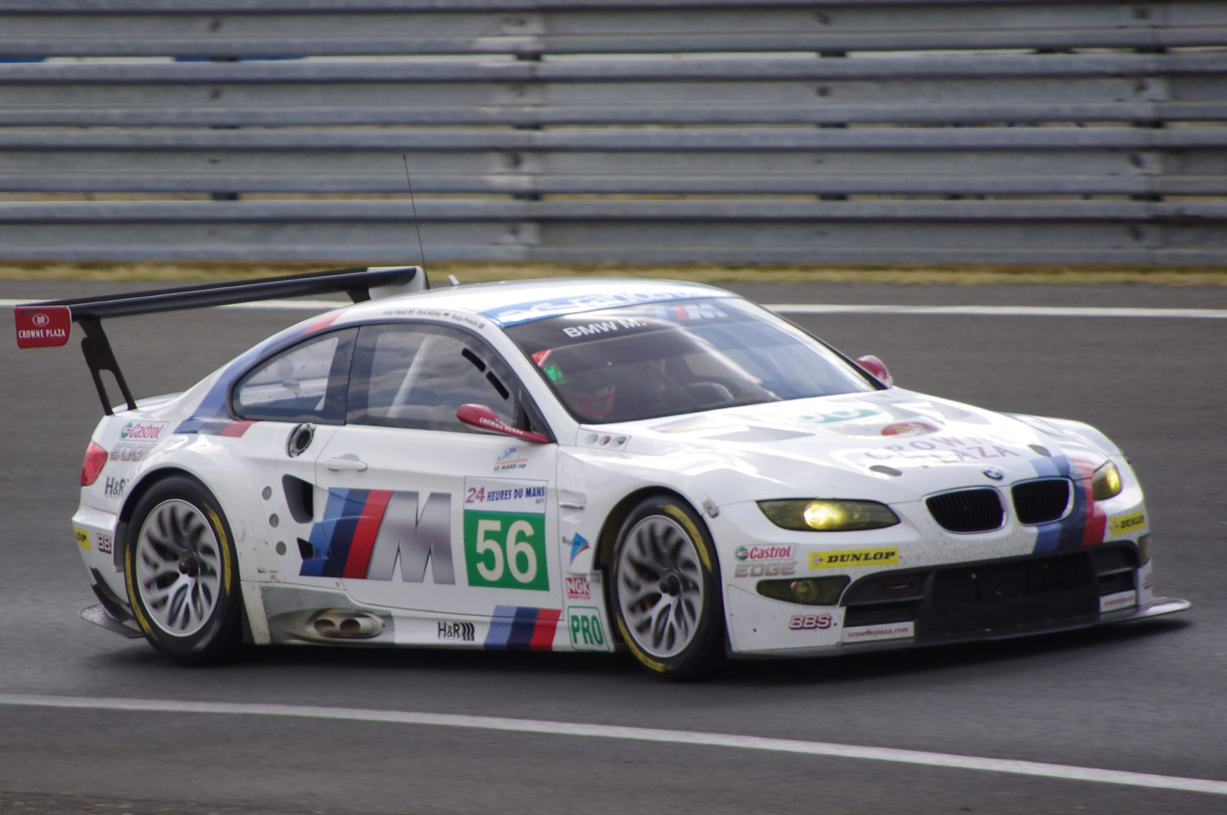 The BMW of drivers Andy Priaulx, Dirk Muller and Joey Hand at the 2011 24 Hours of Le Mans endurance race.